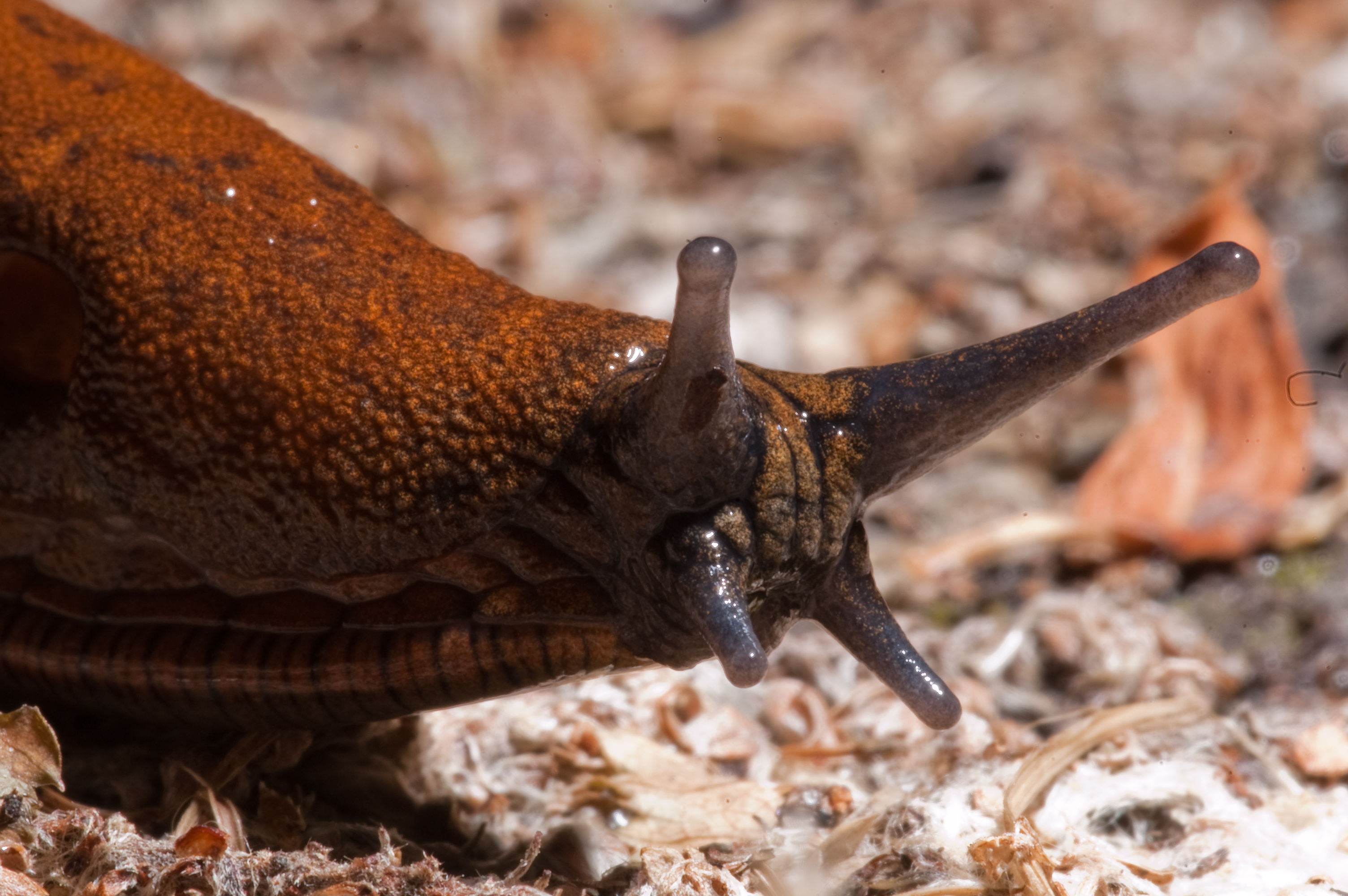 Closeup of the head and sole of a Spanish slug, Arion vulgaris.